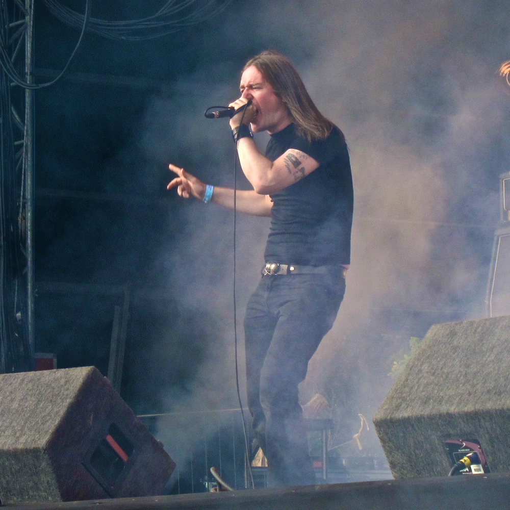 Lee Dorrian of Cathedral at High Voltage 2010